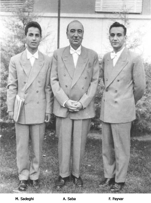 Author: Manoochehr Sadeghi Please feel free to distribute and use publicly.